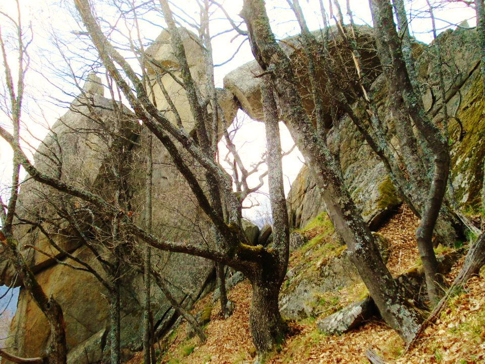 Kozi Gramadi Megalithic Arc Starosel Bulgaria